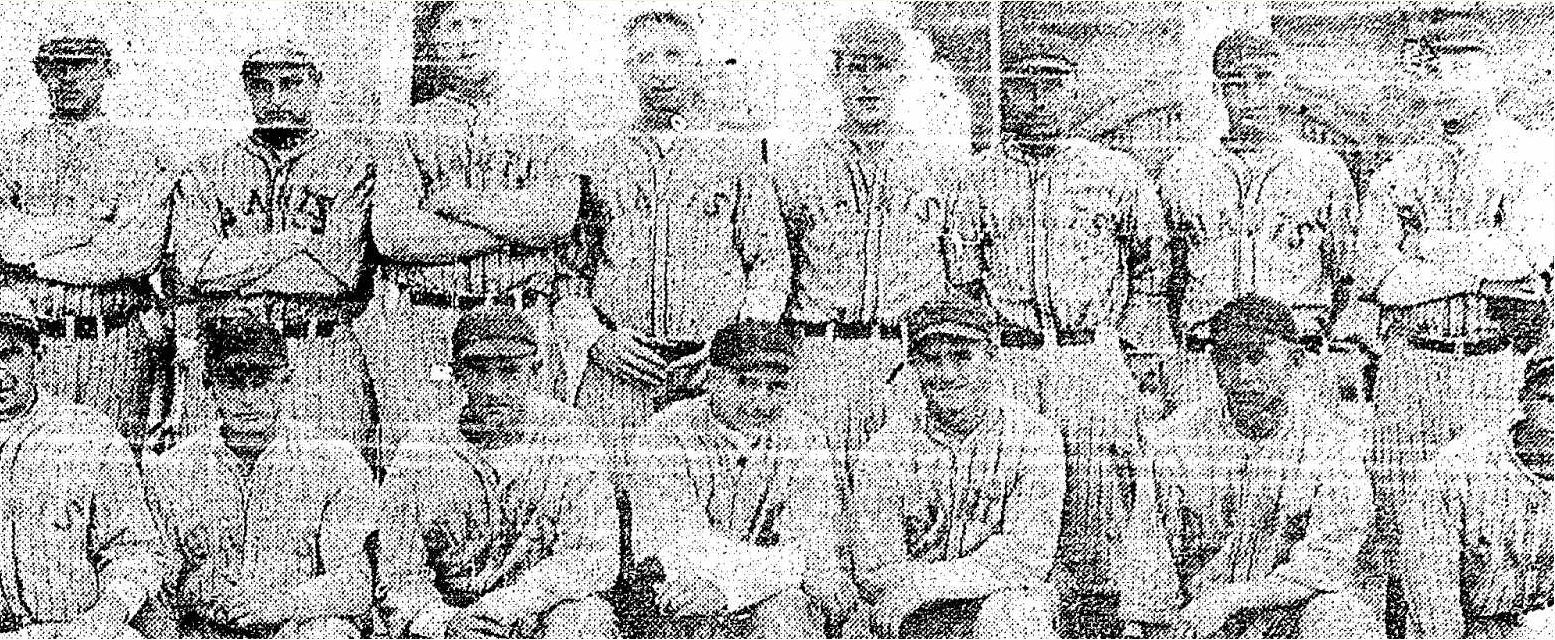 Convicts from New York on a baseball team. The team featured Jim Mahady, a former professional baseball player.